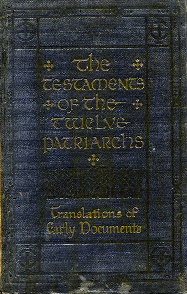 Cover of a modern edition of Testaments of the Twelve Patriarchs. Edited by R.H. Charles, London: Society for Promoting Christian Knowledge, 1917.